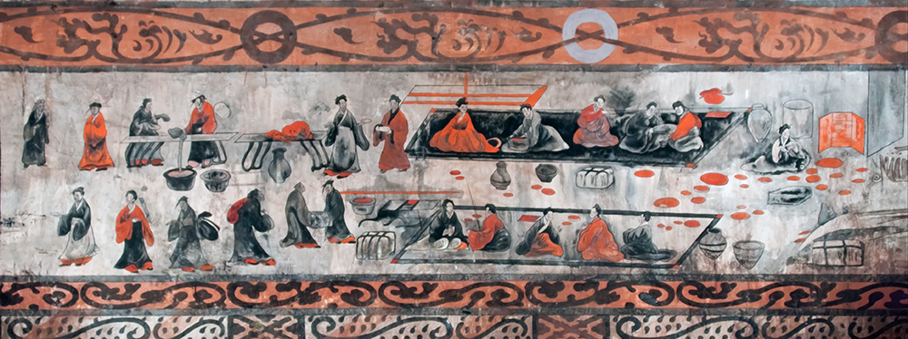 The Dahuting Tomb (Chinese: 打虎亭汉墓, Pinyin: Dahuting Han mu; Wade-Giles: Tahut'ing Han mu) of the late Eastern Han Dynasty (25-220 AD), located in Zhengzhou, Henan province, China, was excavated in 1960-1961 and contains vault-arched burial chambers decorated with murals showing scenes of daily life. For further information, see the Baidu article (in Chinese): 打虎亭汉墓. Click here for more pictures and a step-by-step walkthrough of the tomb, from the outside, down a stairwell, and through the vaulted burial chambers.